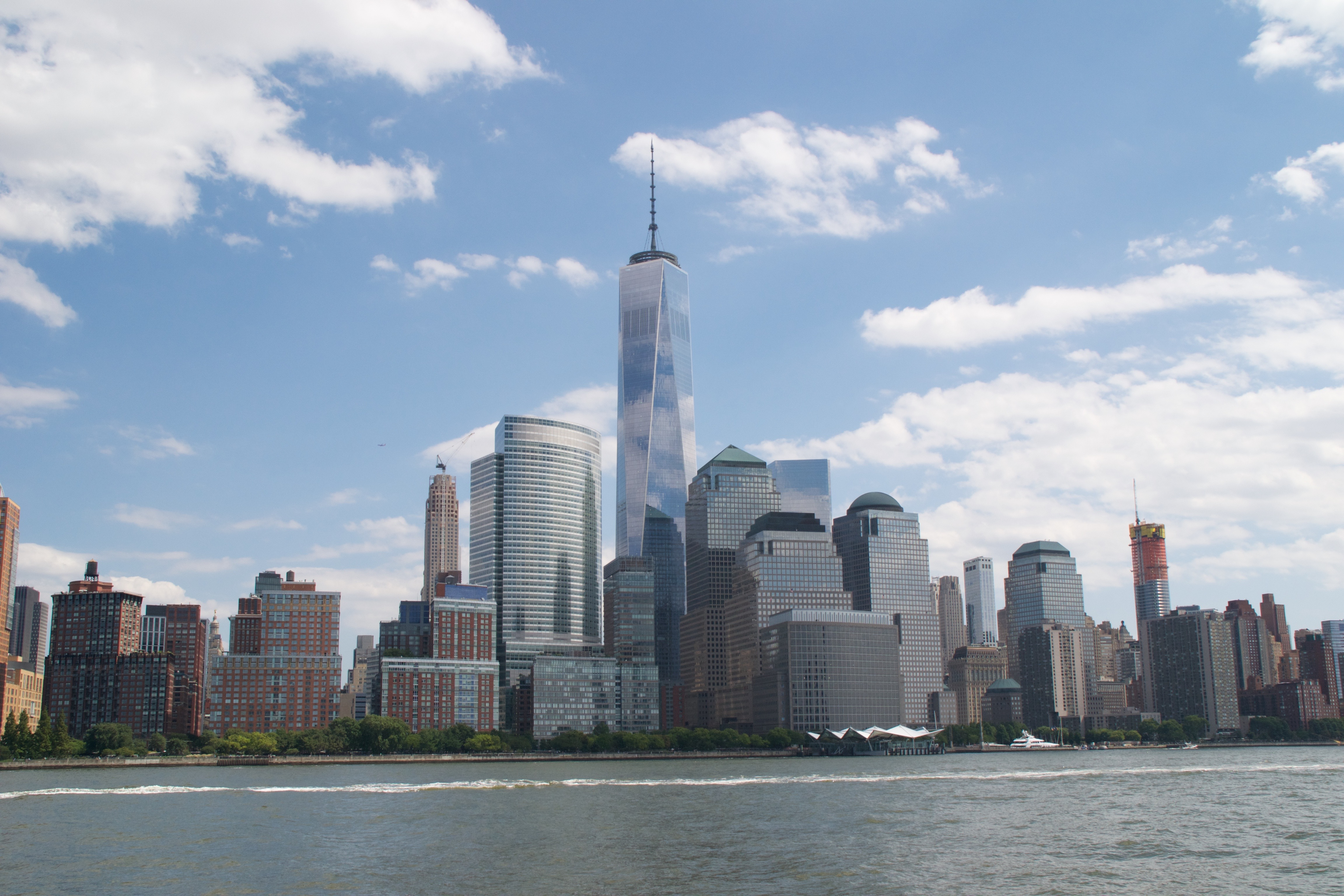 Picture of the one world trade center / new york skyline taken in august 2015